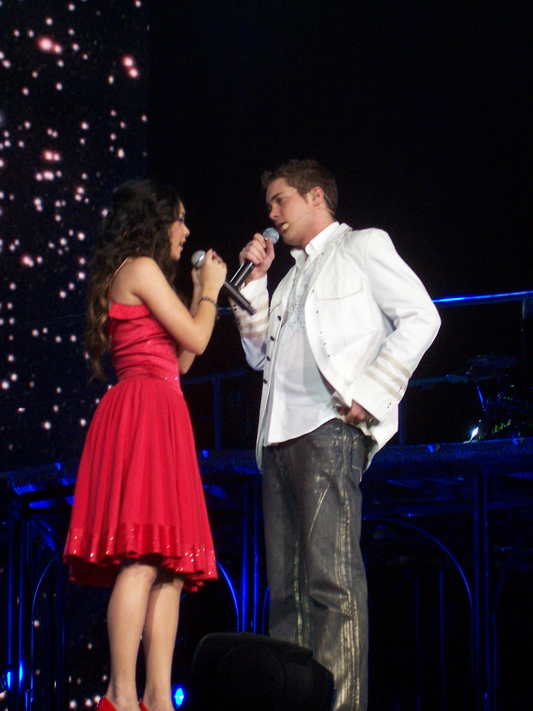 Breaking Free